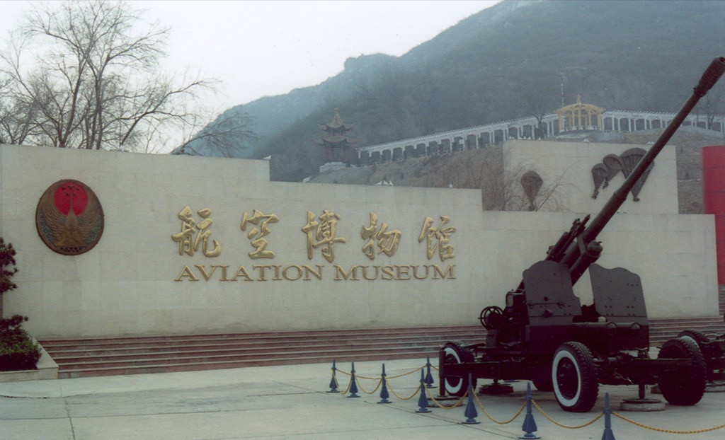 Chinese Aviation Museum